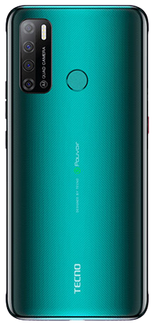 Tecno Pouvoir 4 Vs Pouvoir 4pro, price in Pakistan low price mobile